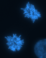 An HT1080 cell undergoing the final stages of mitosis, currently in telophase.